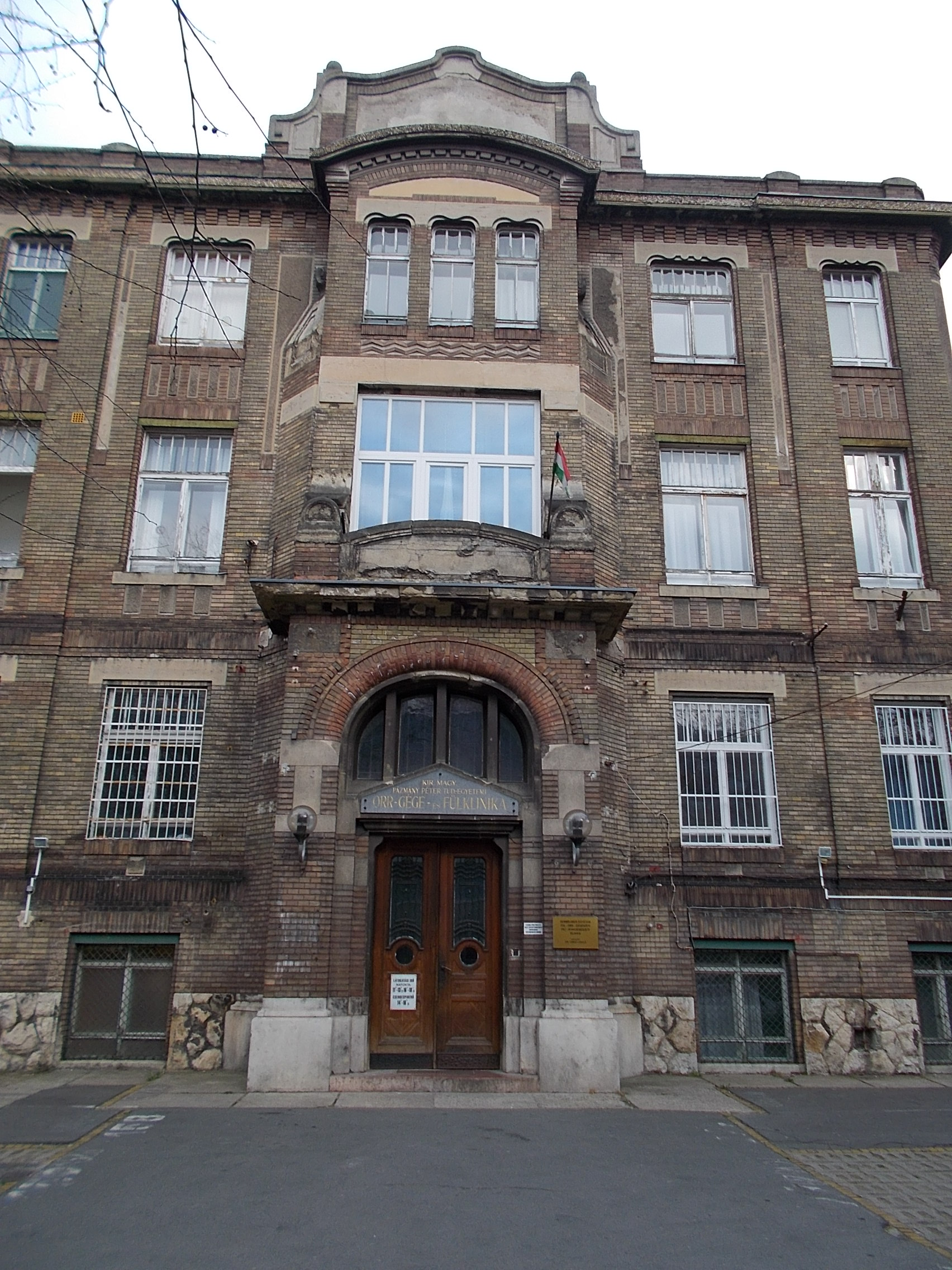 Department of Otorhinolaryngology, Head and Neck Surgery. - Semmelweis University. - 36 Szigony Street, Losonci neighbourhood, Budapest District VIII.